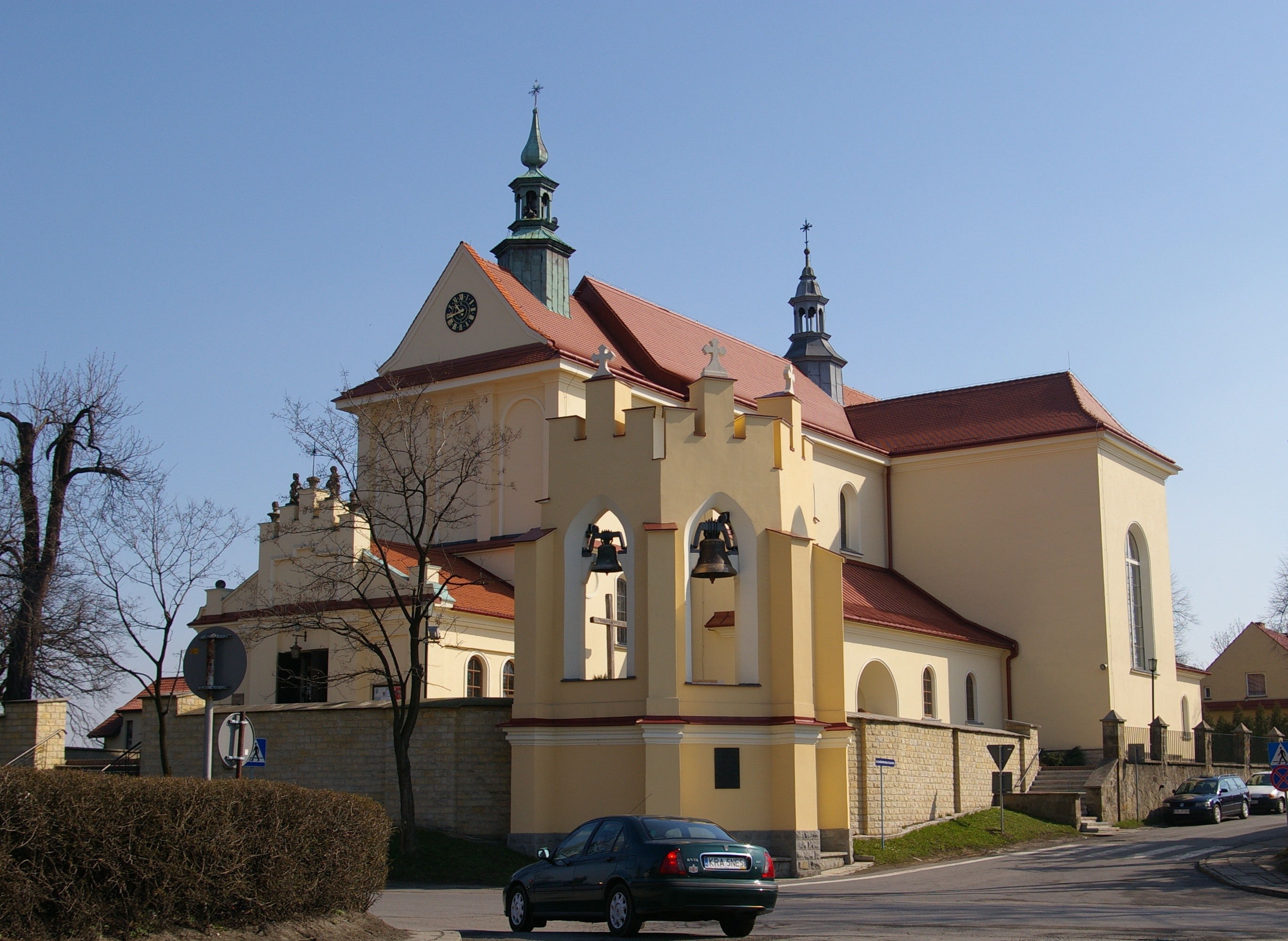 Parish church in Mogilany, Poland